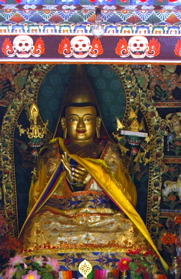 Statue of Tsongkhapa, founder of Gelugpa Sect (Yellow Hats) in buddhist Monastery of Kumbum near Xining, Qinghai, China